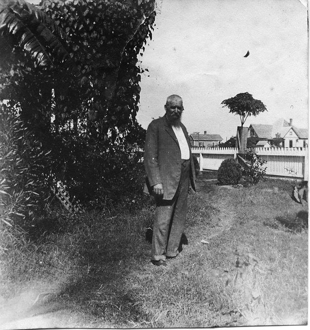 William Prince Ford, slave owner who first bought Solomon Northup in 1841